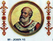 Pope John VI